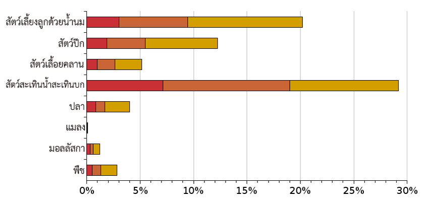 Percentage of species listed on the IUCN Red List, by group.